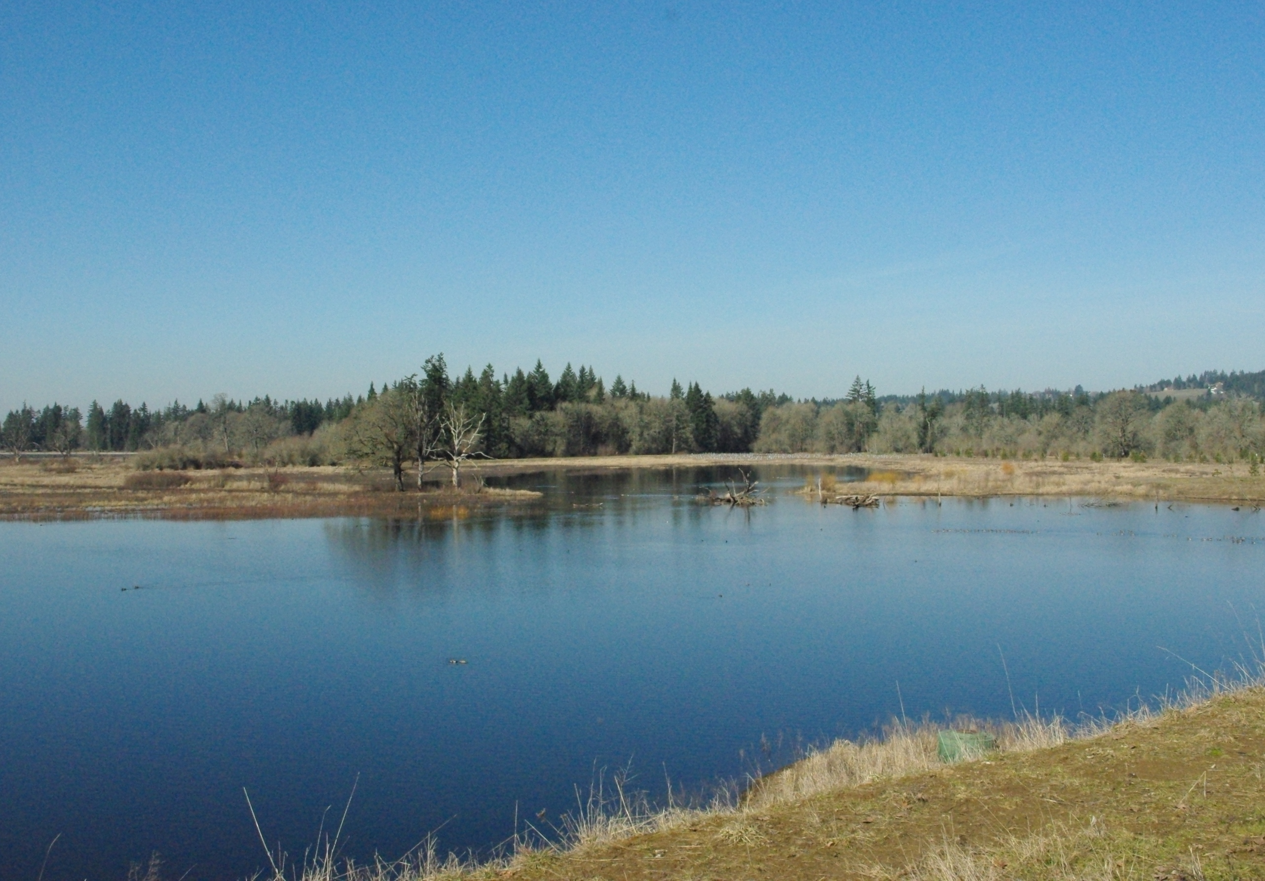 The Tualatin River National Wildlife Refuge near Sherwood, Oregon, USA.